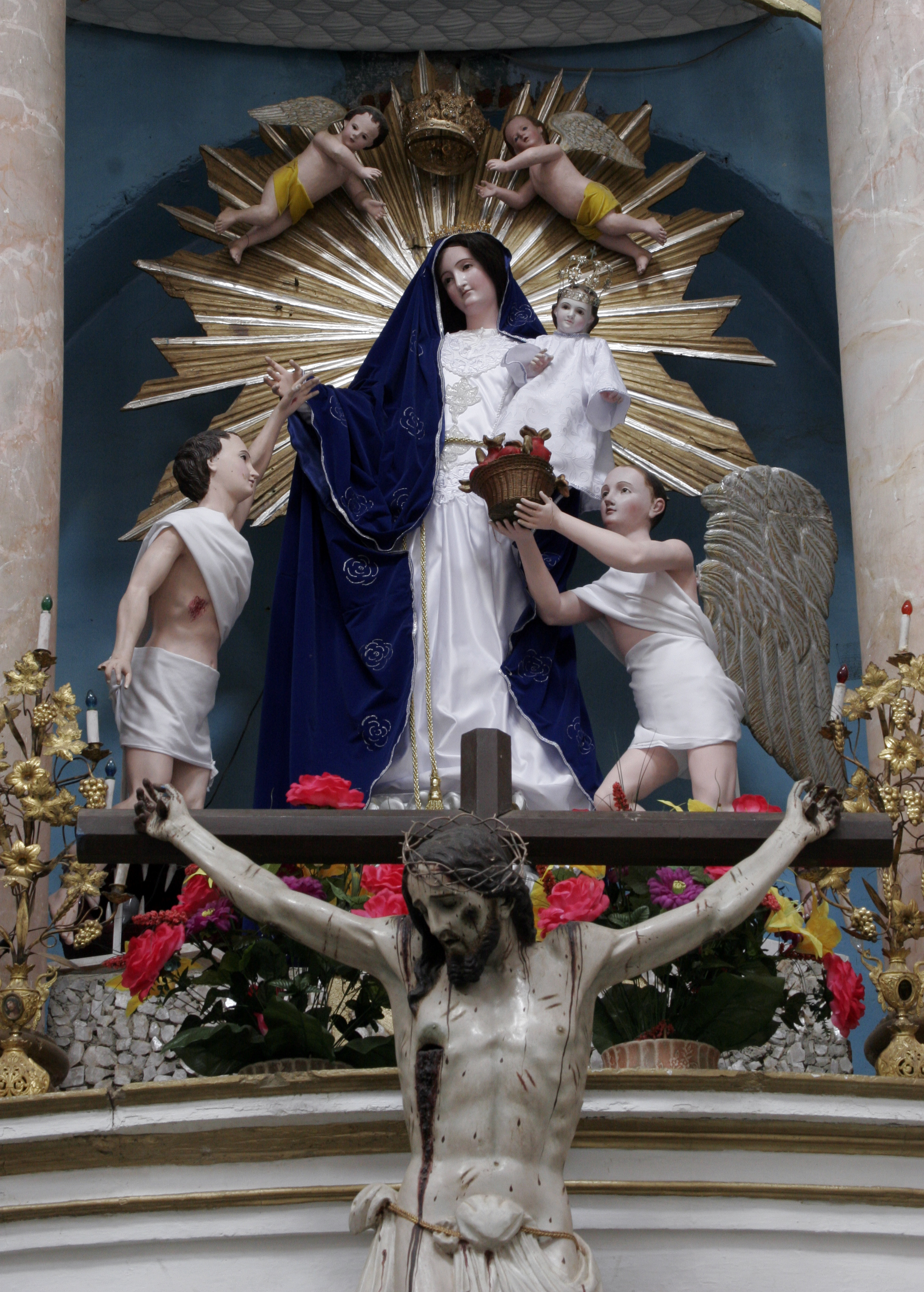 18th century altar at La Luz, Guanajuato, Mexico